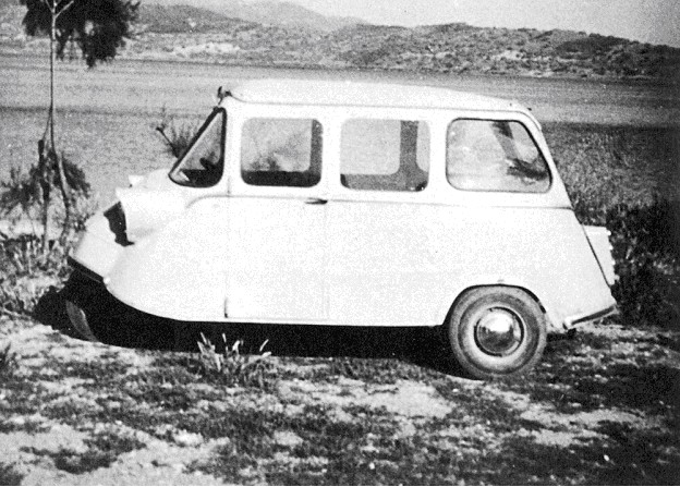 Image of a 1965 BET 3-wheeler.